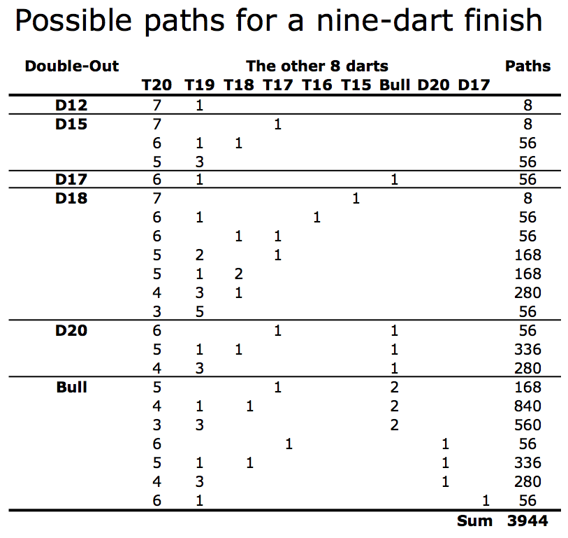 This table shows all 3,944 possible paths for a nine-dart finish playing a 501 double-out dart leg.